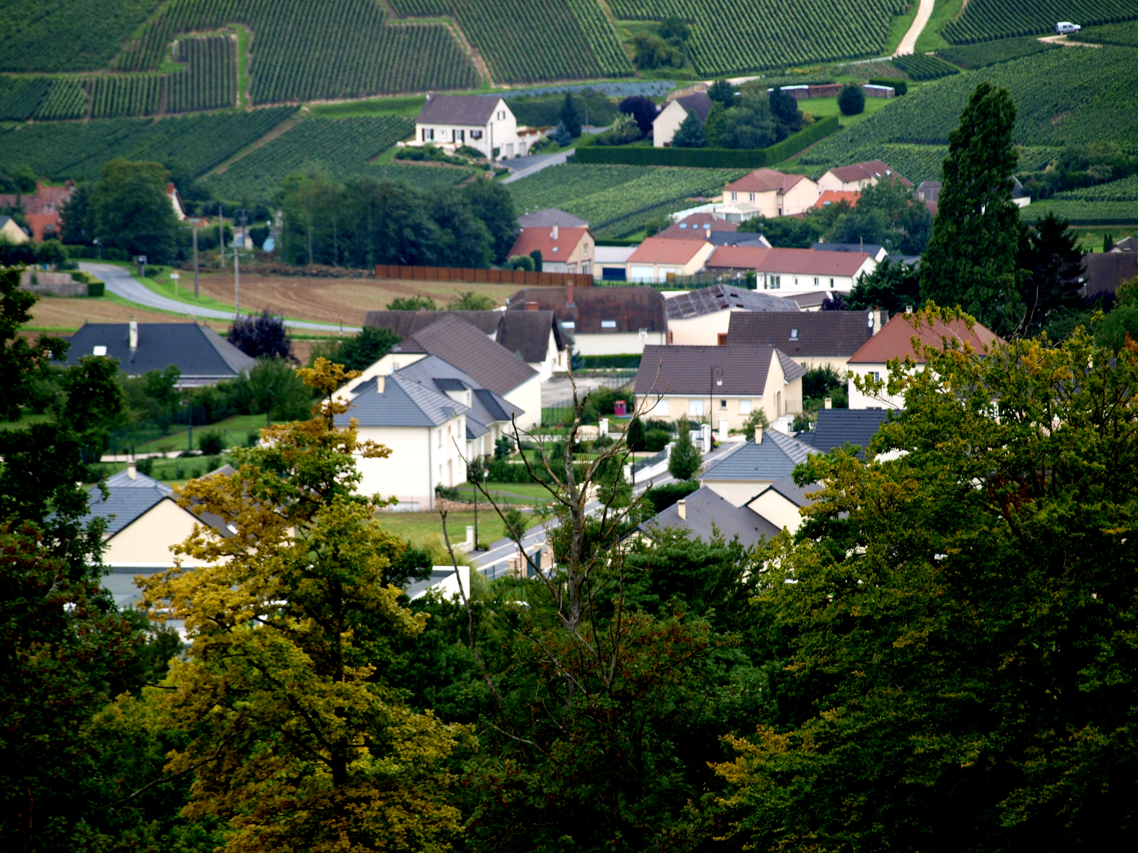 Villers sous Chatillon, view from the Chateau